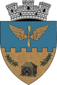 Coat of arms of the town of Otopeni, Ilfov County, Romania